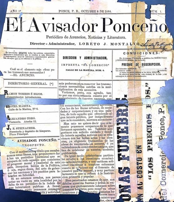 Periódico El Avisador Ponceño, Ponce, Puerto Rico, edición de 8 de Octubre de 1884